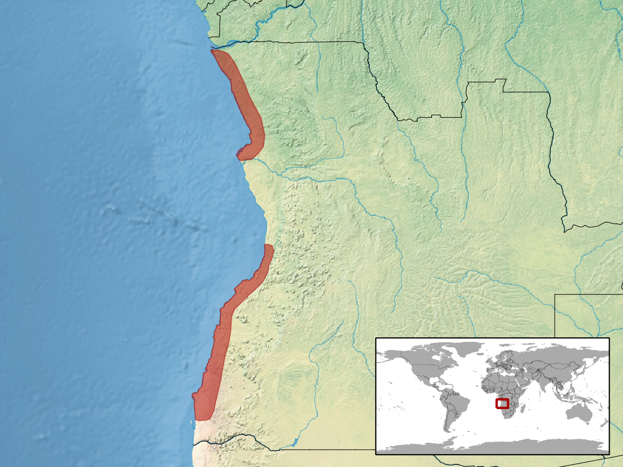 geographic distribution of Bitis peringueyi (Native: Angola (Angola); Namibia)